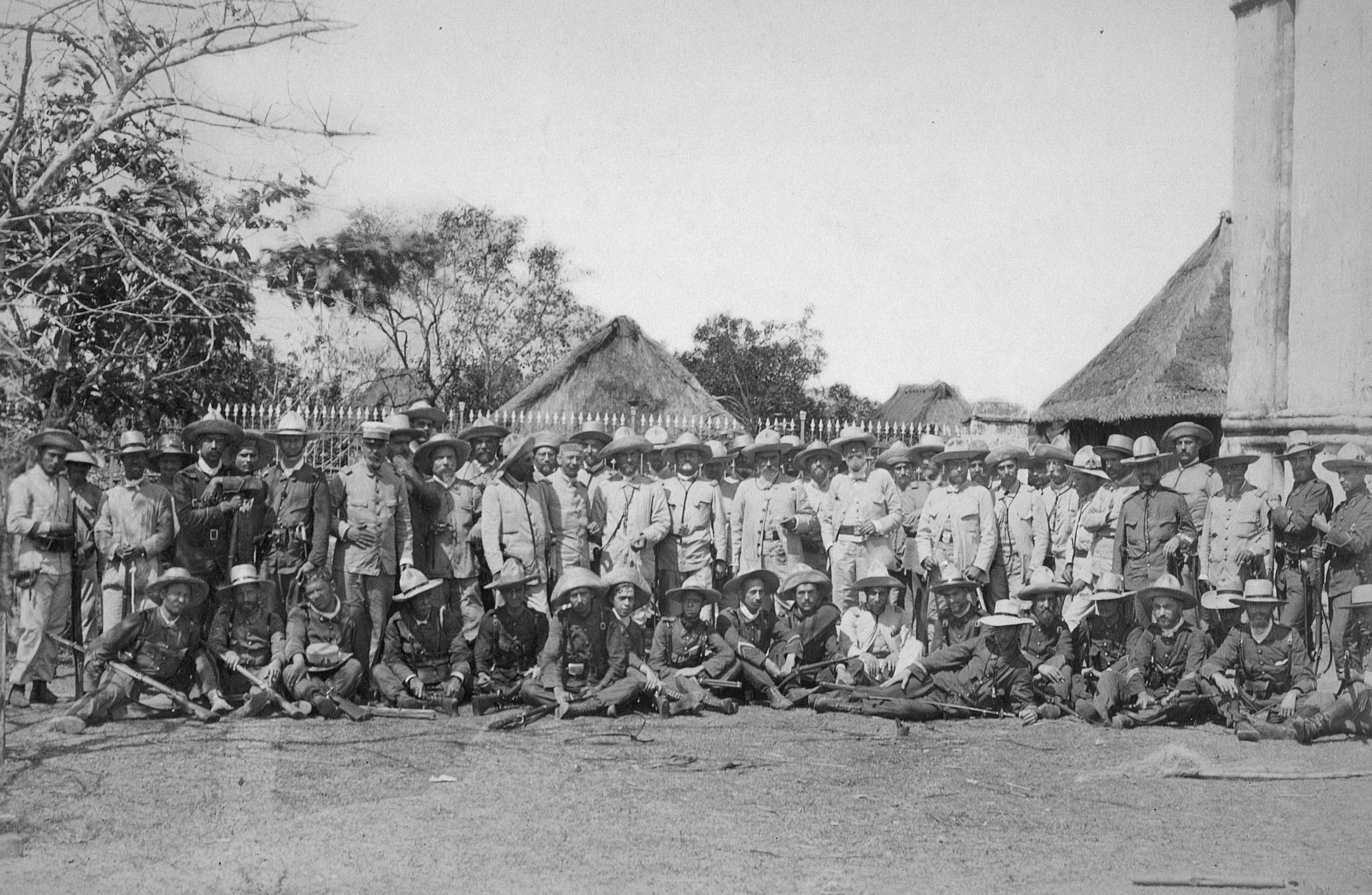 Spanish infantry; troops and officers during the Philippine Campaign of the Spanish-American War (1898). This is a retouched picture, which means that it has been digitally altered from its original version. Modifications: Colour..